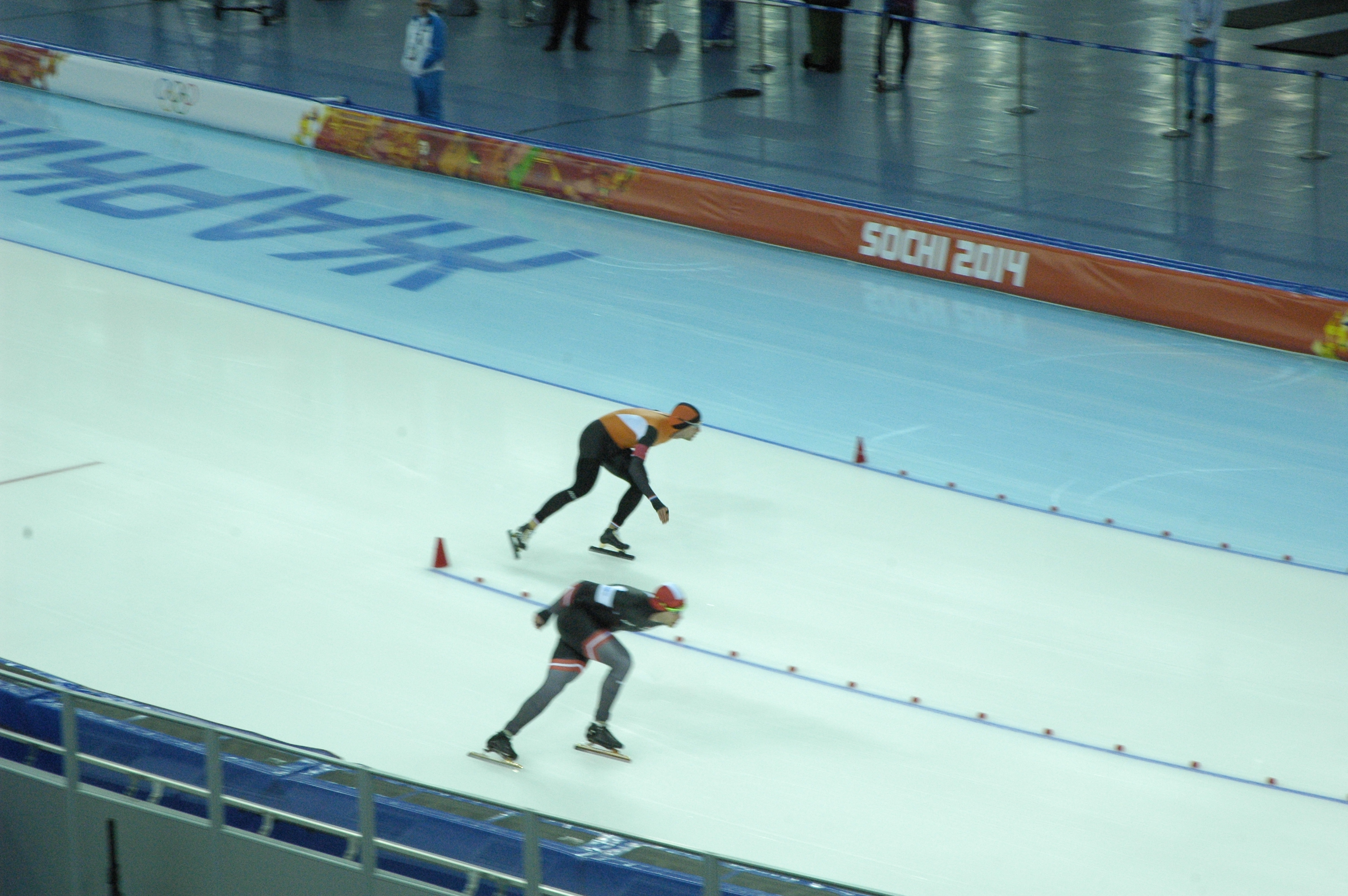 Men's_1500m,_2014_Winter_Olympics,_Mark_Tuitert_&_Haralds_Silovs(2).JPG